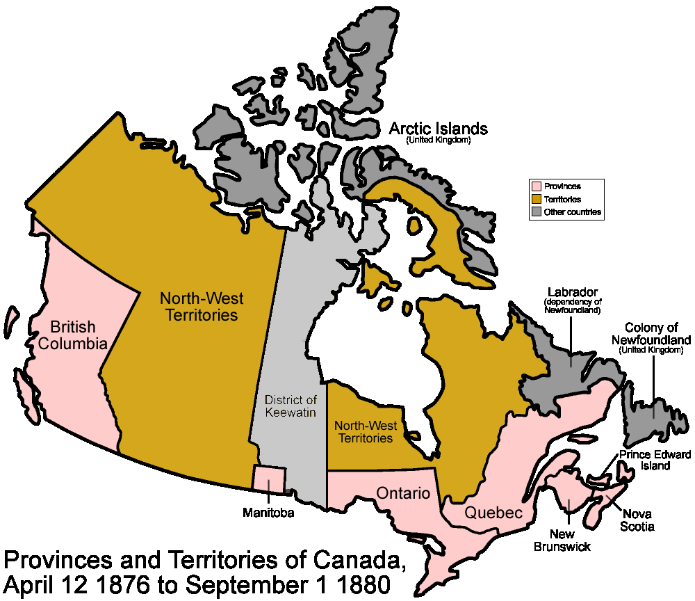 Adapted image File:Canada provinces 1876-1880.png to highlight the district of Keewatin for theCouncil of Keewatin article